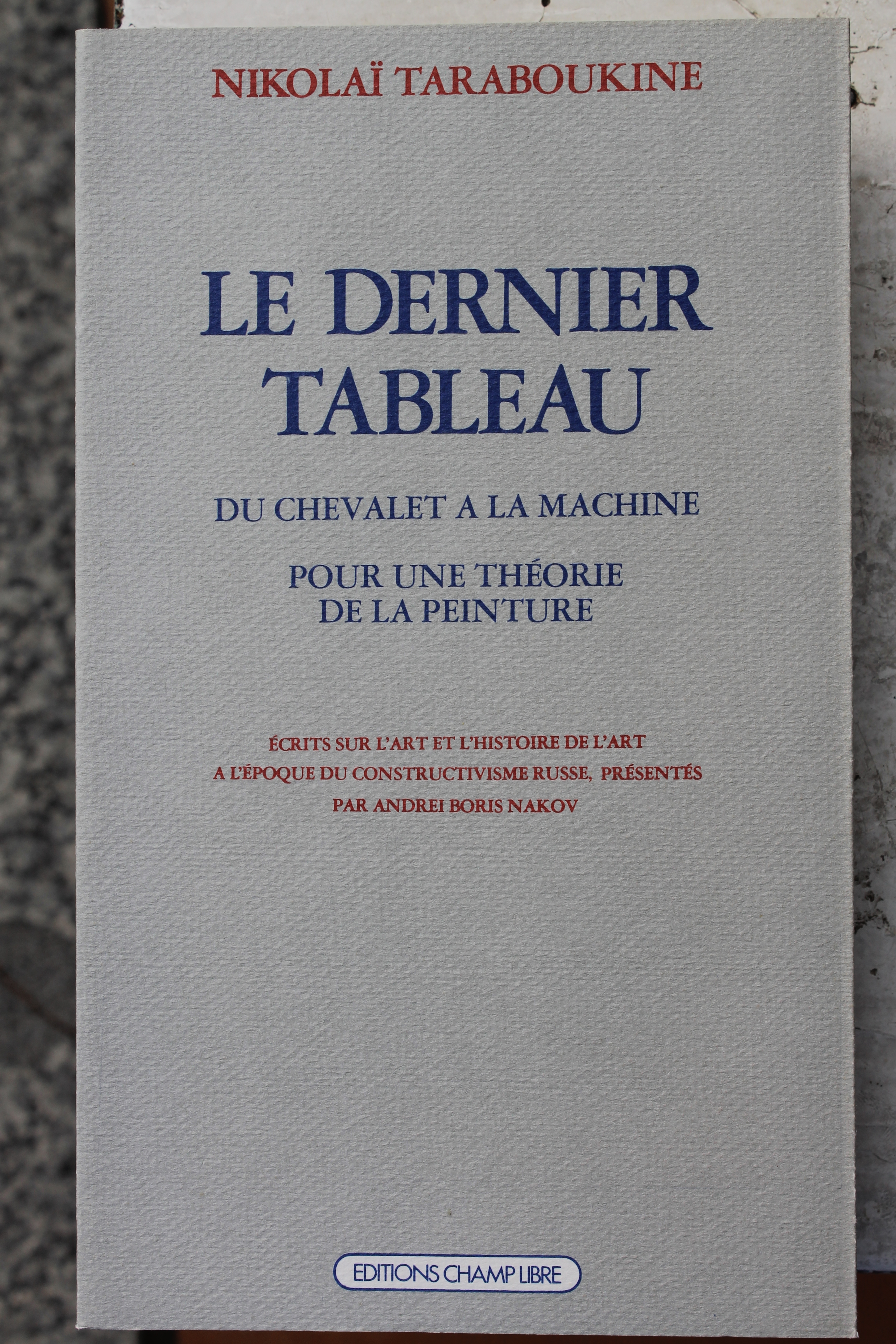 Le Dernier Tableau by Nikolai Taraboukine (book cover)